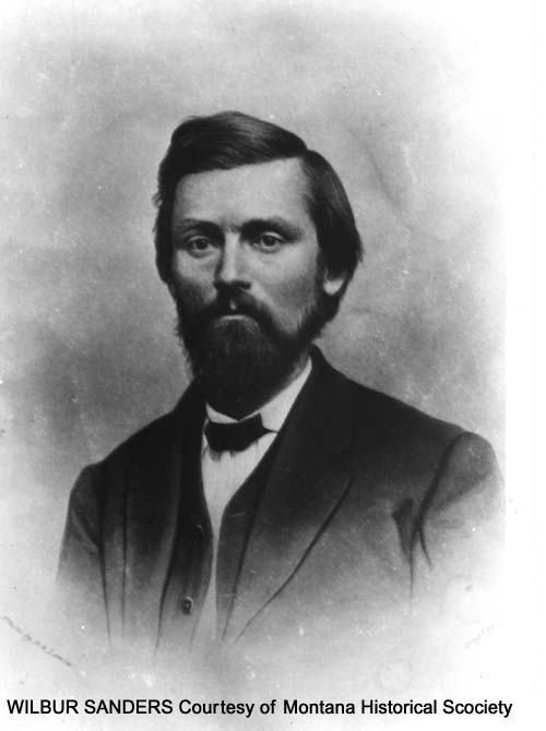 Photograph of Wilbur Fisk Sanders (1834 - 1905).